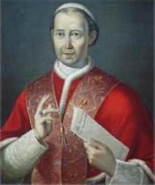 Pope Leo XII.